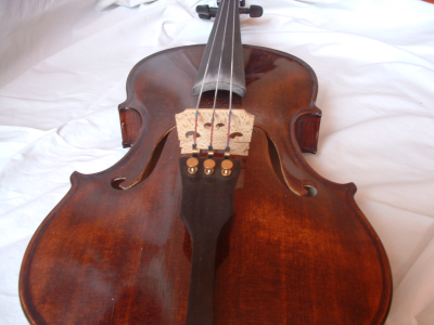 3-stringed viola with flattened bridge